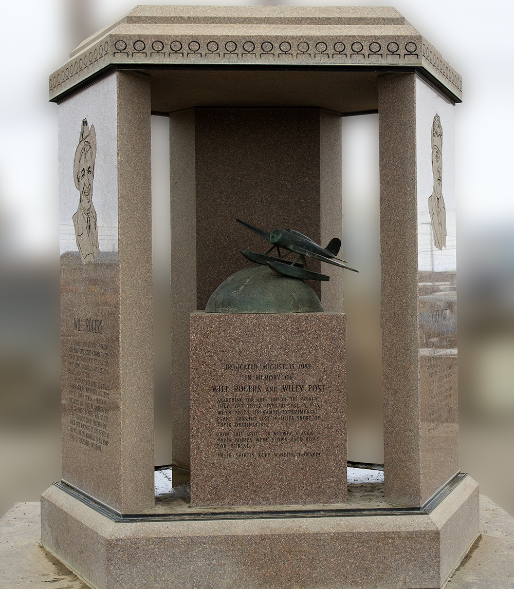 Memorial commemorating Will Rogers and Wiley Post located at Barrow, Alaska